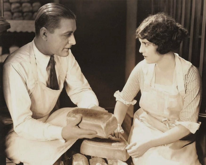 Kenneth Harlan and Madge Kennedy in Dollars and Sense - cropped screenshot (original image damaged, modified : see source)